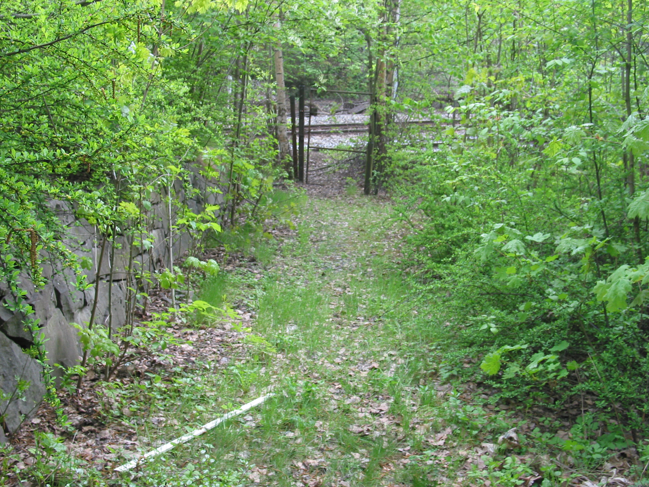 The pathway down to Myra Station, not entirely overgrown in the 36 years since the station went defunct.